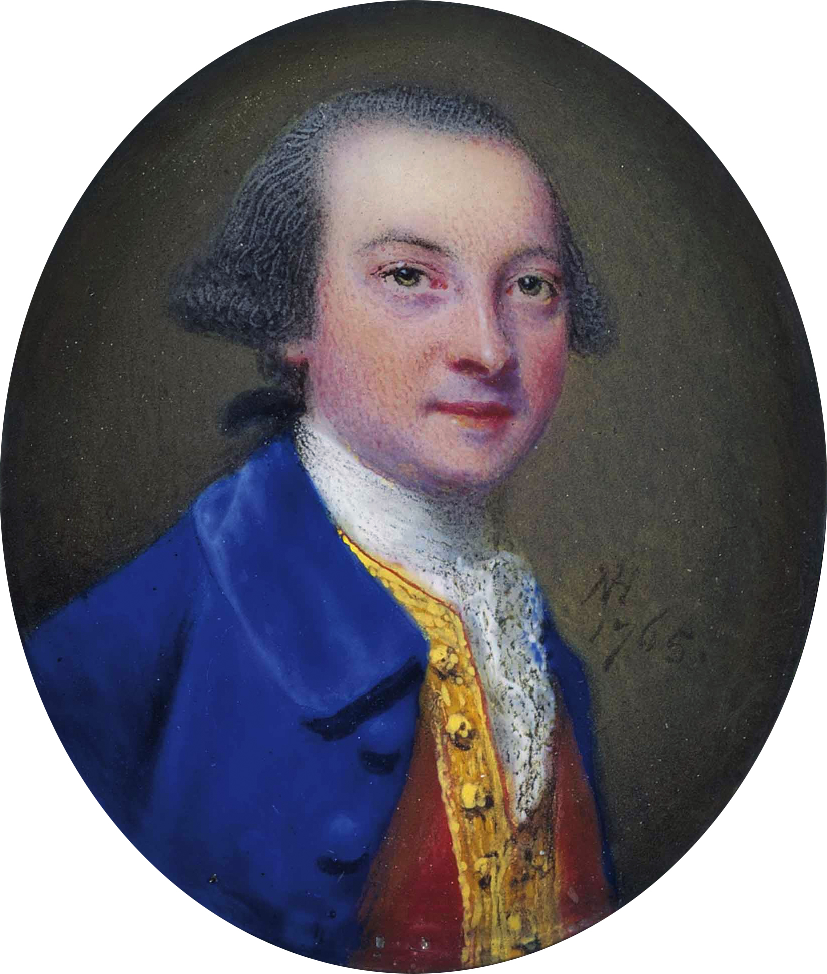 Edward Dering, 6th Bt. (1732-1798) enamel oval 3.3 cm signed c.r.: NH 1765 engraved: Sir Edward Dering. (6th Bart) of Surrenden-Dering. Kent. Born Sept. 20th 1732. Died Dec. 8th 1798.